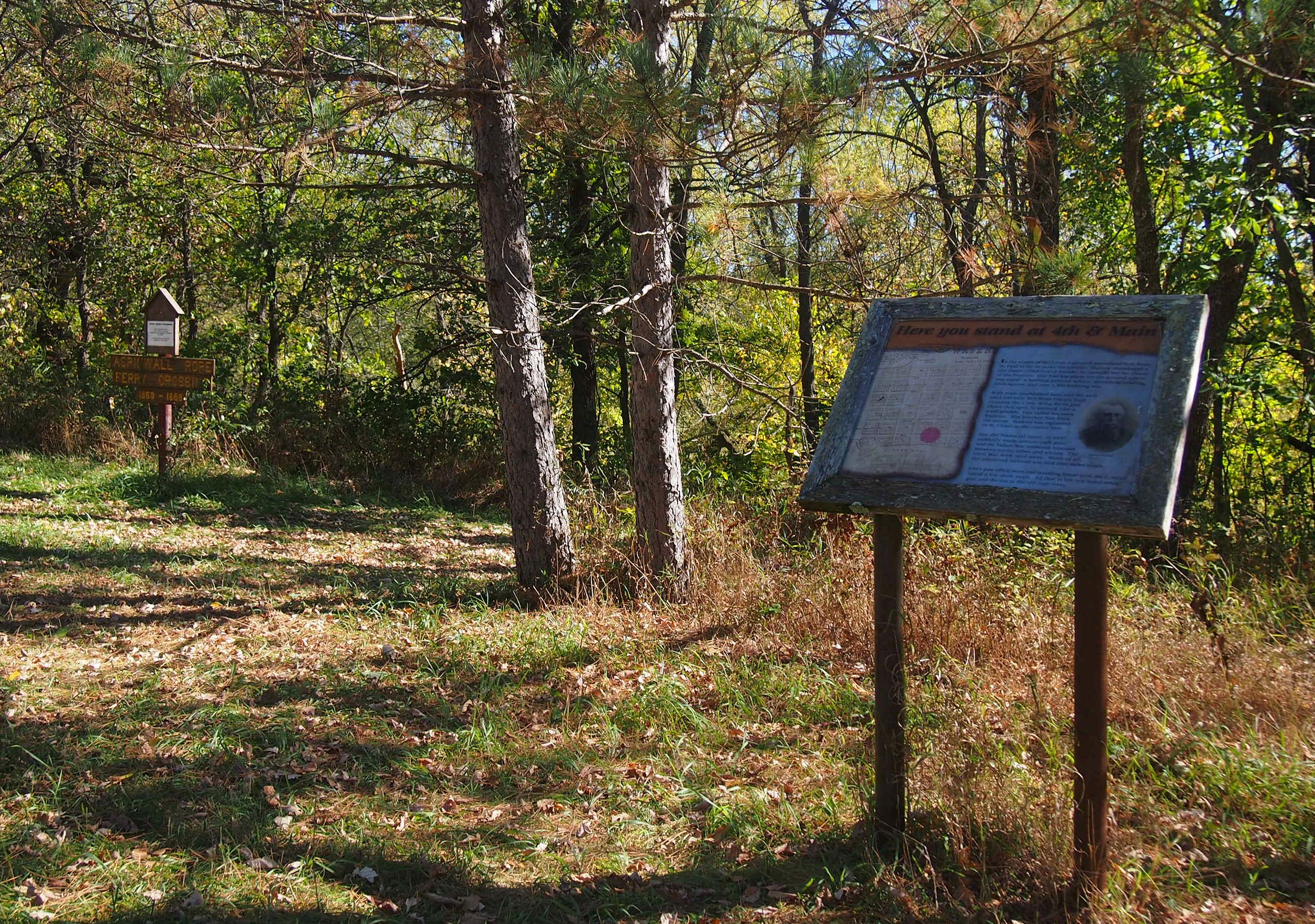 Signs marking features of Old Wadena, Old Wadena County Park, Thomastown Township, Minnesota, USA. Viewed from the west.